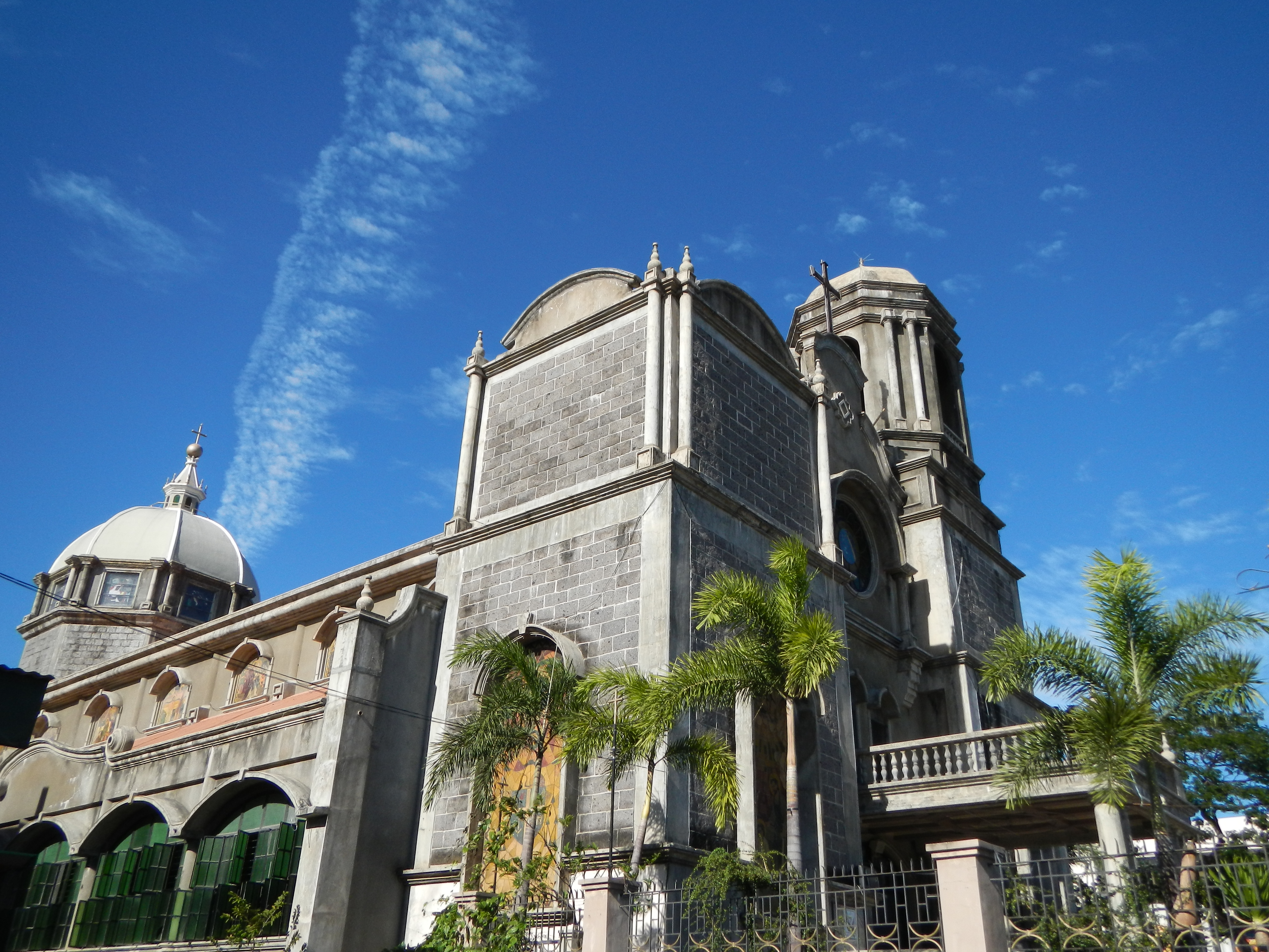 1946 Cathedral of Saint Joseph the Worker of San Jose,[1]The Roman Catholic Diocese of San Jose in the Philippines (Lat: Dioecesis Sancti Iosephi in Insulis Philippinis) is an ecclesiastical territory or diocese of the Latin Rite of the Roman Catholic Church in the Philippines.[2]Vicariate of St. Joseph Titular:Saint Joseph the Worker Current Parish Priest: Father Cesar C. Vergara, assisted by Fr. Remigio "Baby" Malga and Fr. Jun Flores, San Jose City, 3121 Nueva Ecija, Philippines Population: 108,155 Catholics: 0.85%[3] Bishop Robert Callara Mallari, DD[4]May 15, 2012[5][6][7][8][9][10]Solemnly blessed and decicated on March 20, 2006.[11]